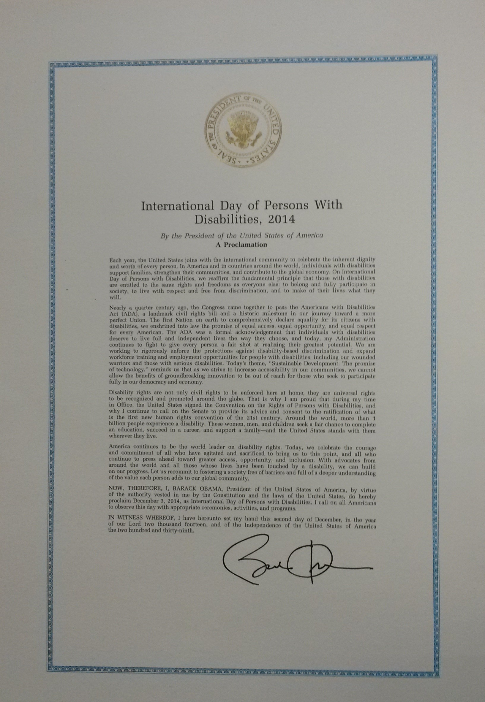 This letter from Barack Obama, President of the United States, states the help that NTI has given to Americans with Disabilities.